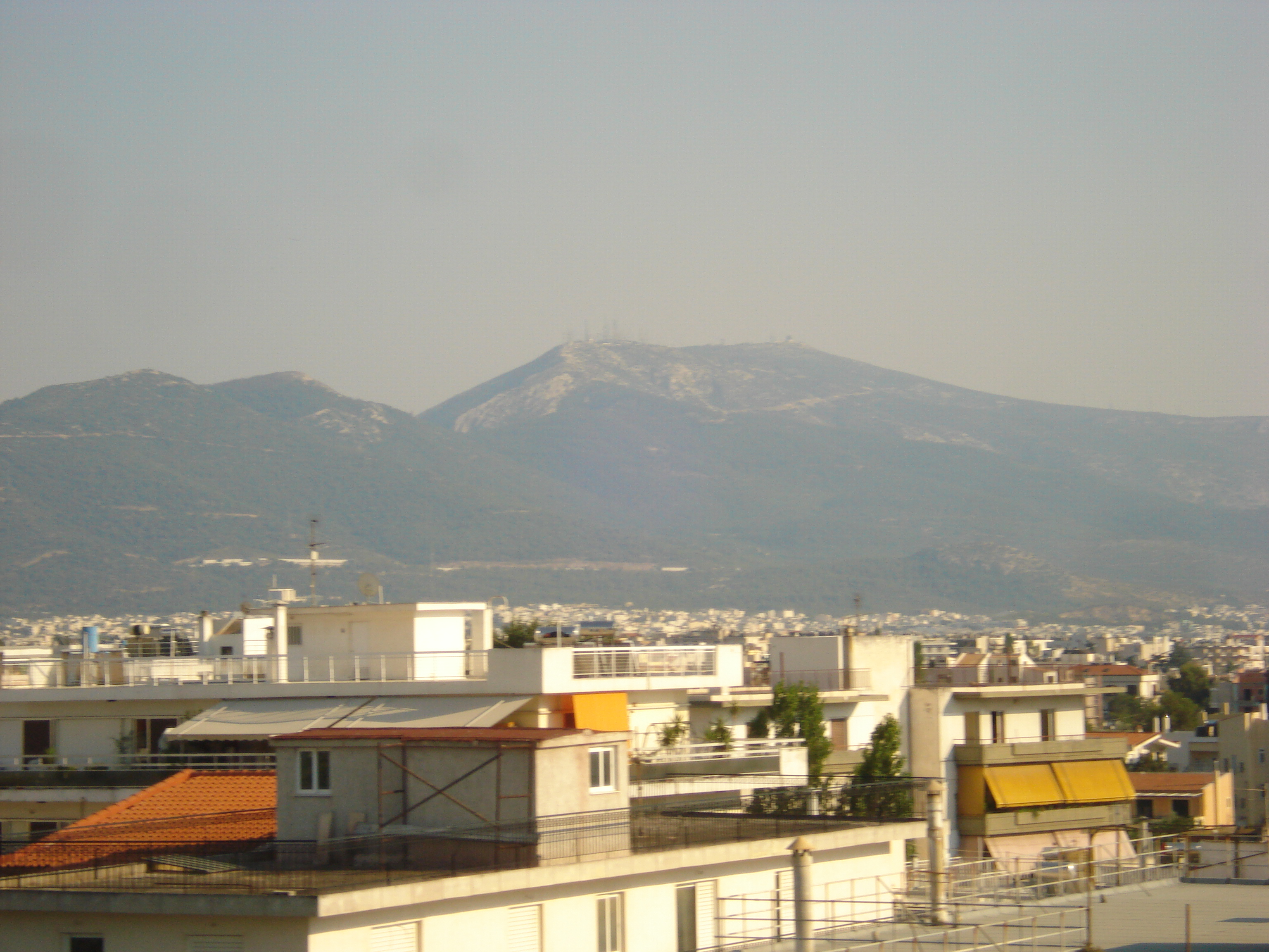 Mount Hymettus from Marousi, summer 2010.